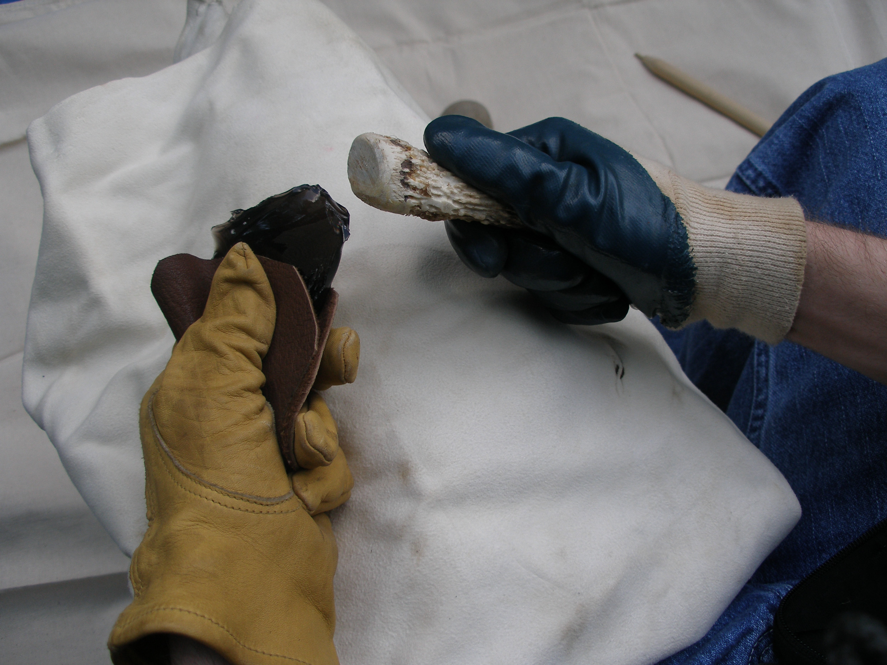 An example of soft hammer percussion used in flintknapping. ZenTrowel